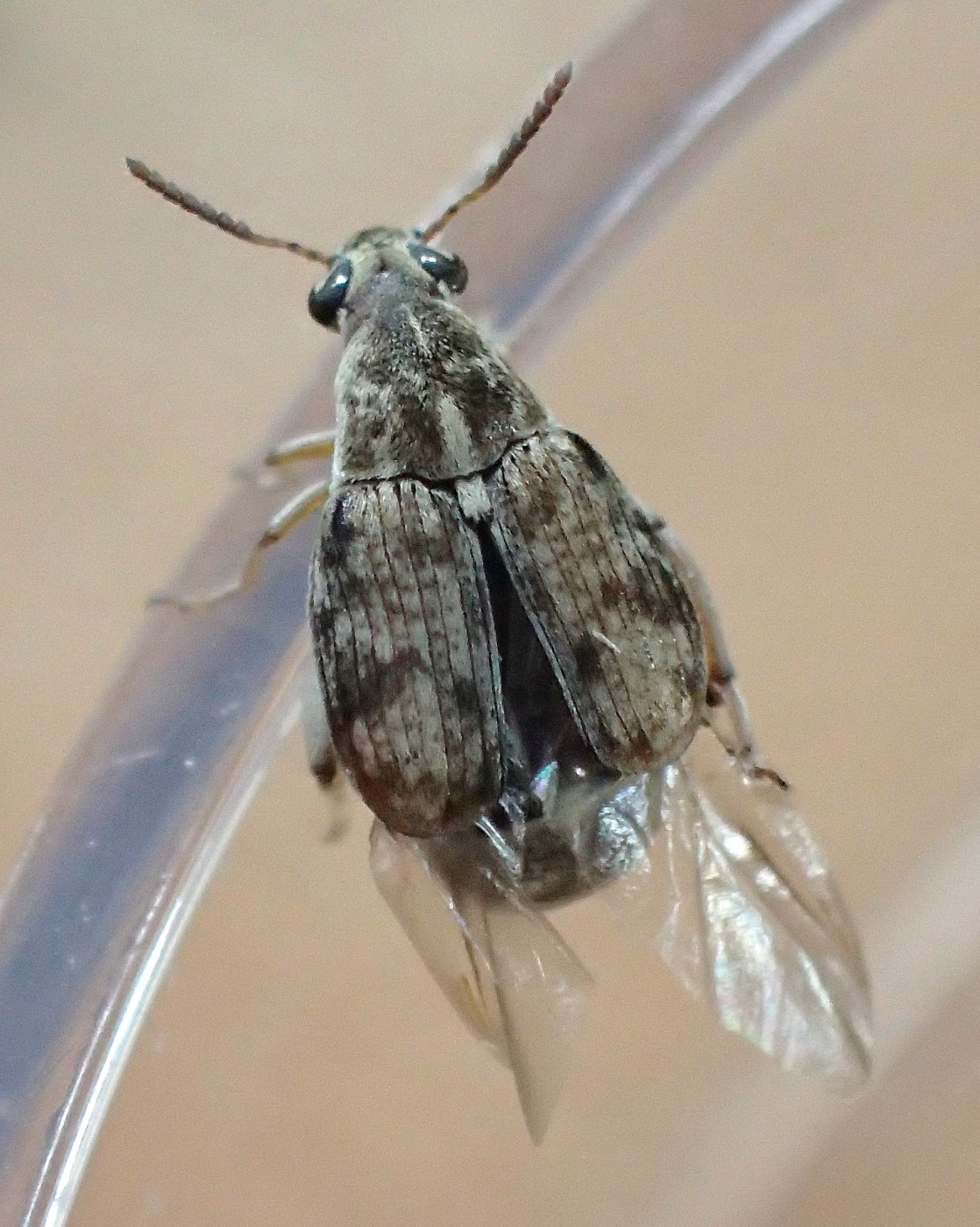 A been weevil, full 5 mm long.